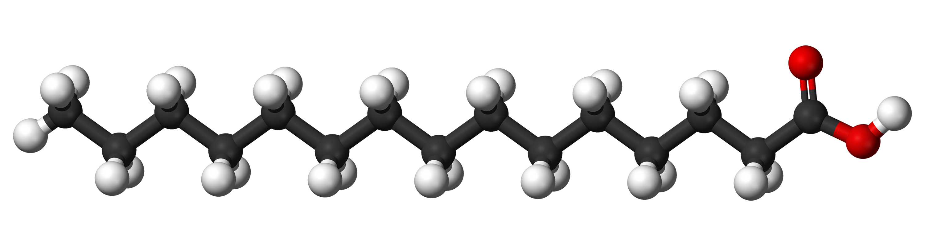 Ball-and-stick model of the pentadecylic acid molecule (also known as pentadecanoic acid), a saturated fatty acid with 15 carbon atoms.